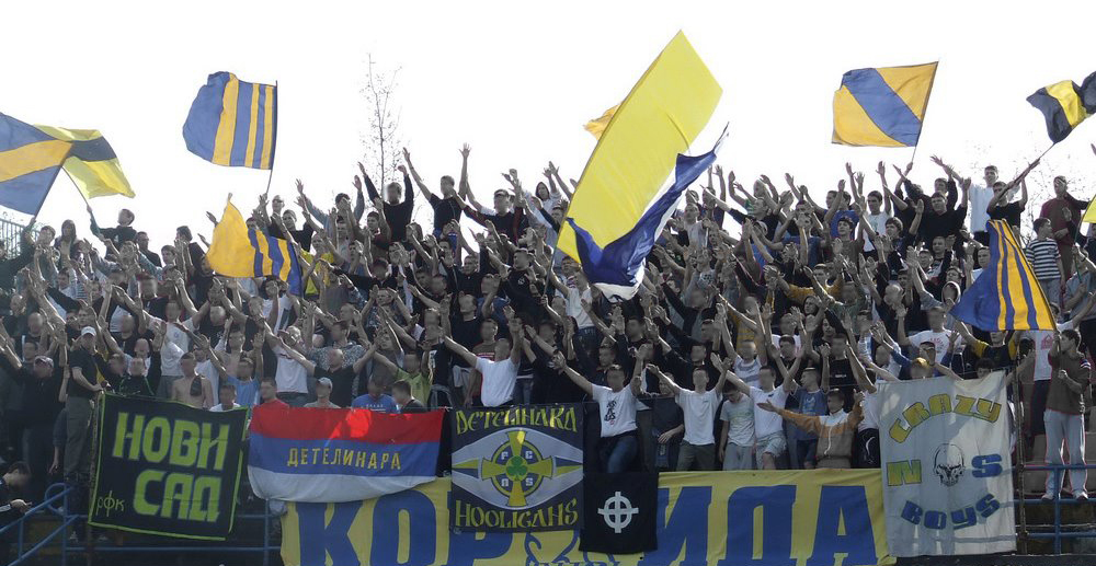 Supporters of FK Novi Sad